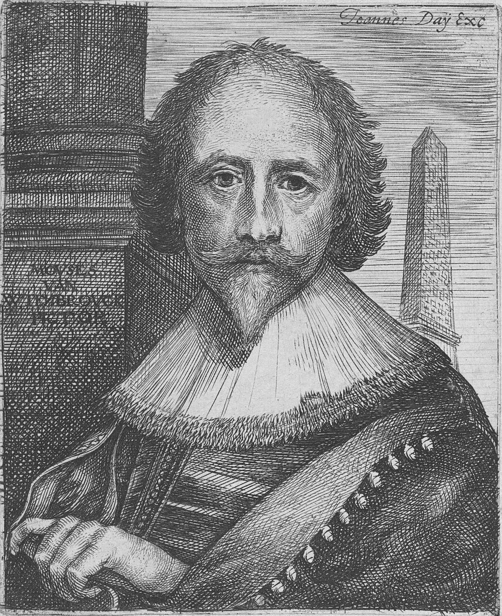 Self-portrait of the painter and engraver of Moyses van Wtenbrouck (Moses van Uyttenbroeck). In the background, an obelisk. Rijksmuseum Amsterdam.